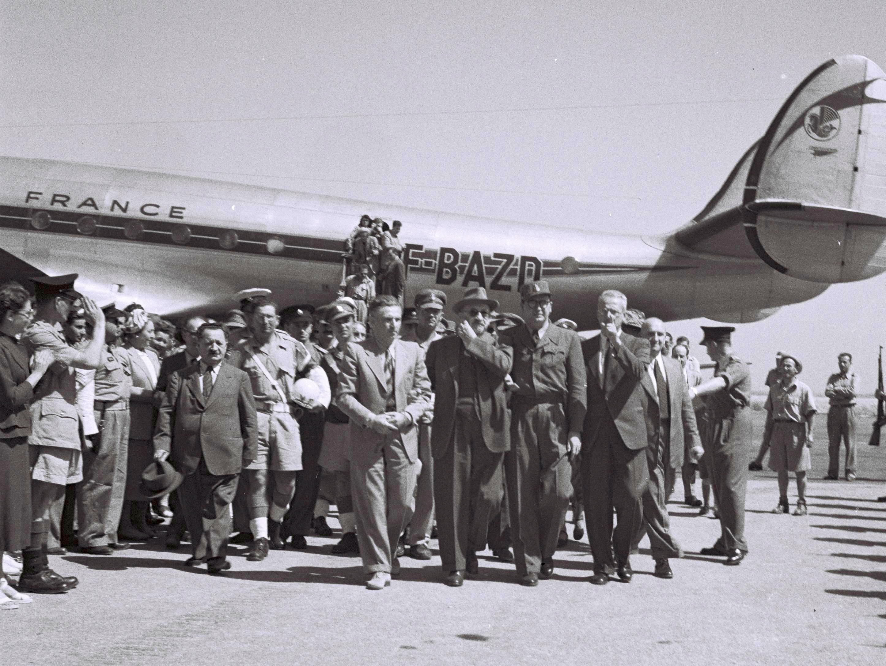 Chaim Weizmann at Lod airport